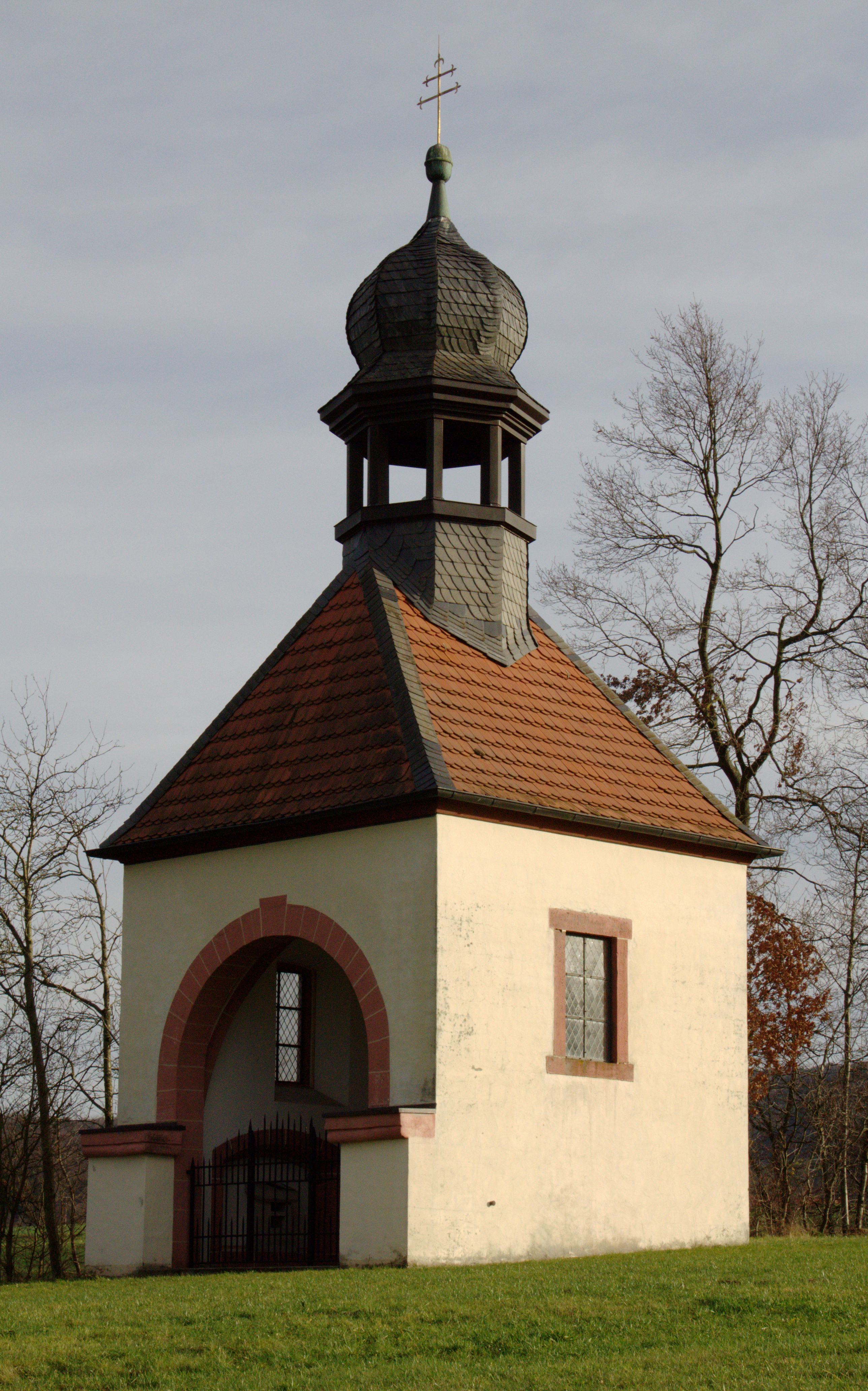 Small Chapel near Ebersburg , Hesse, Germany